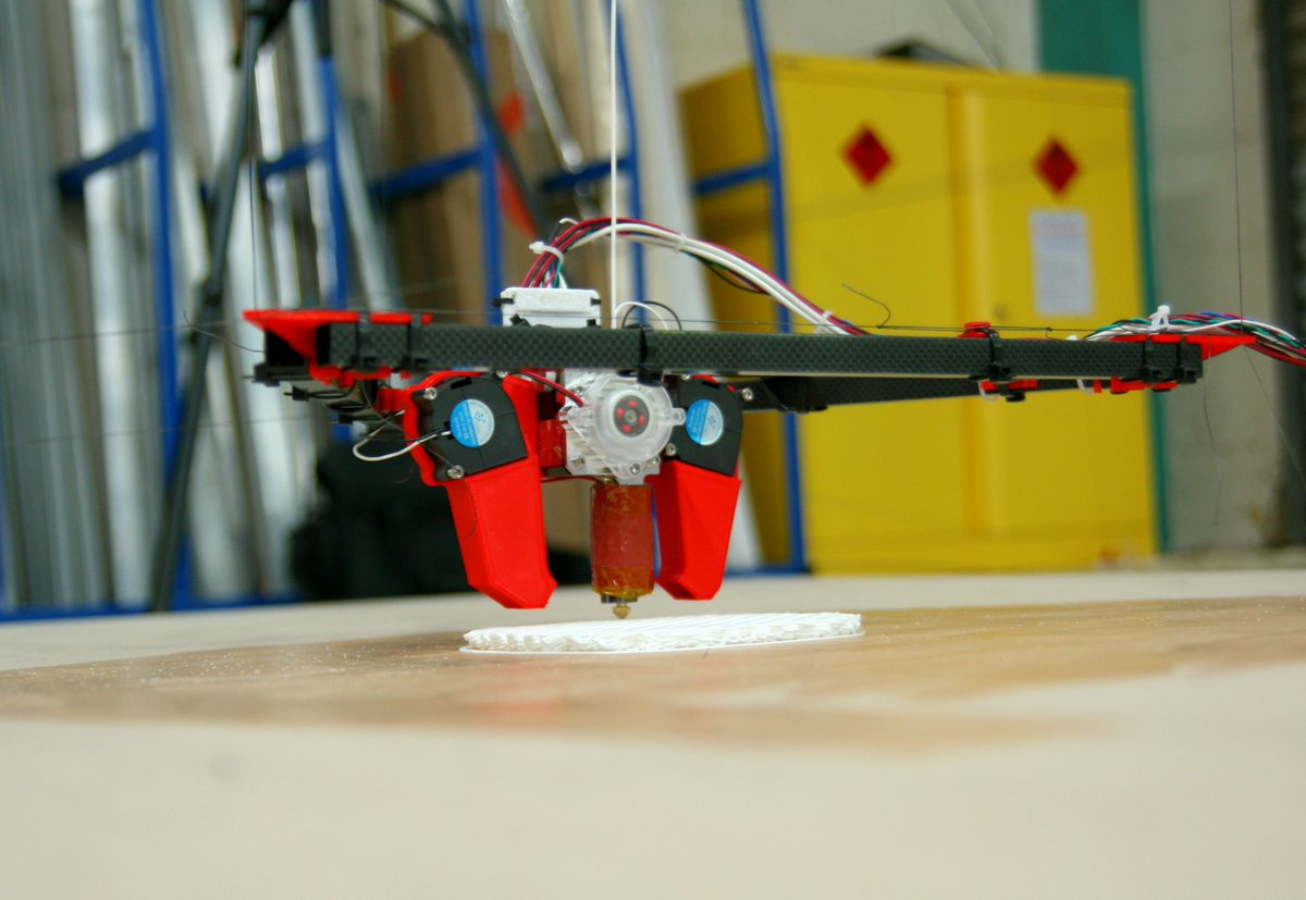 Hangprinter v3 printing